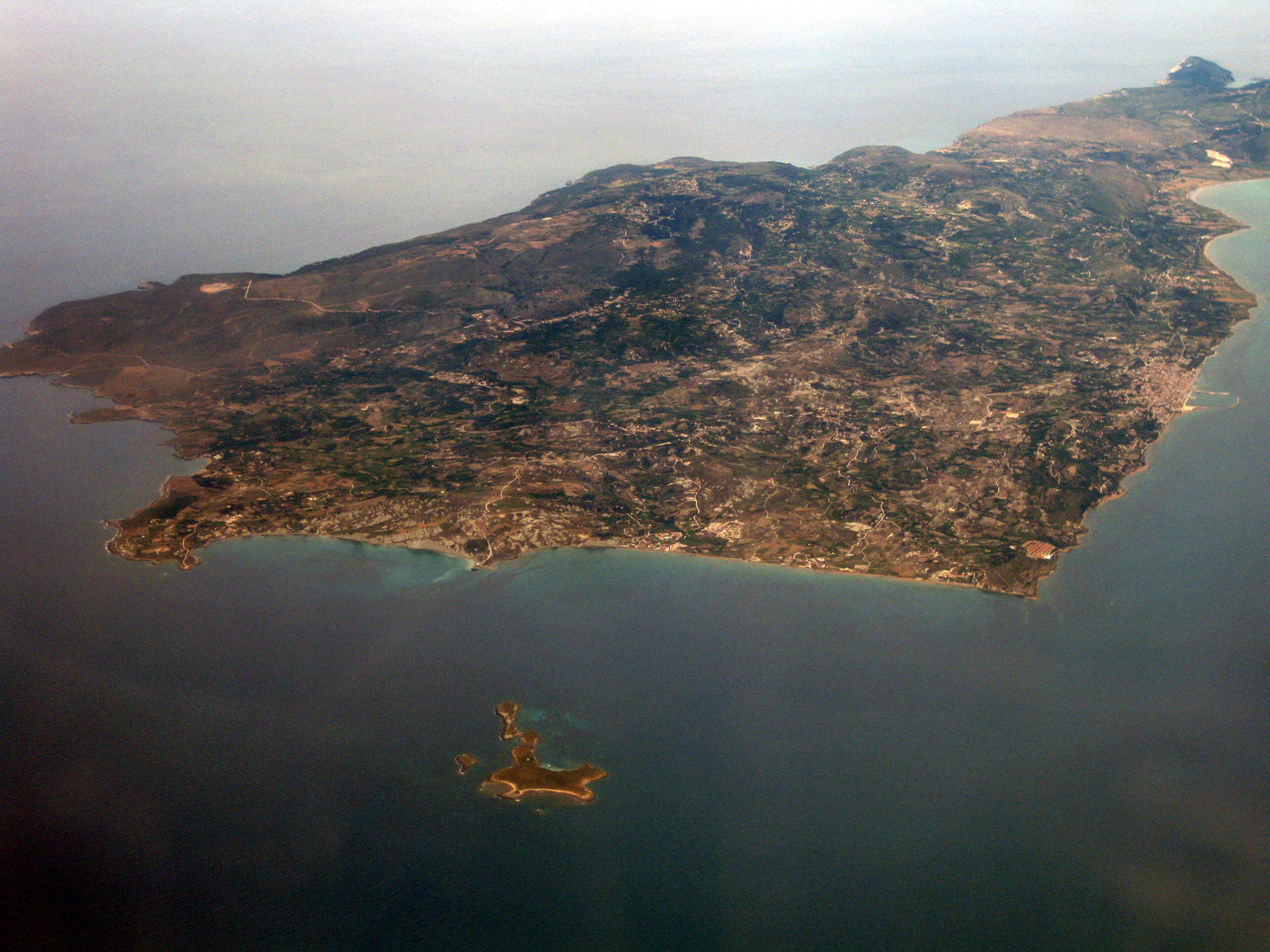 The Paliki peninsula with Lixouri